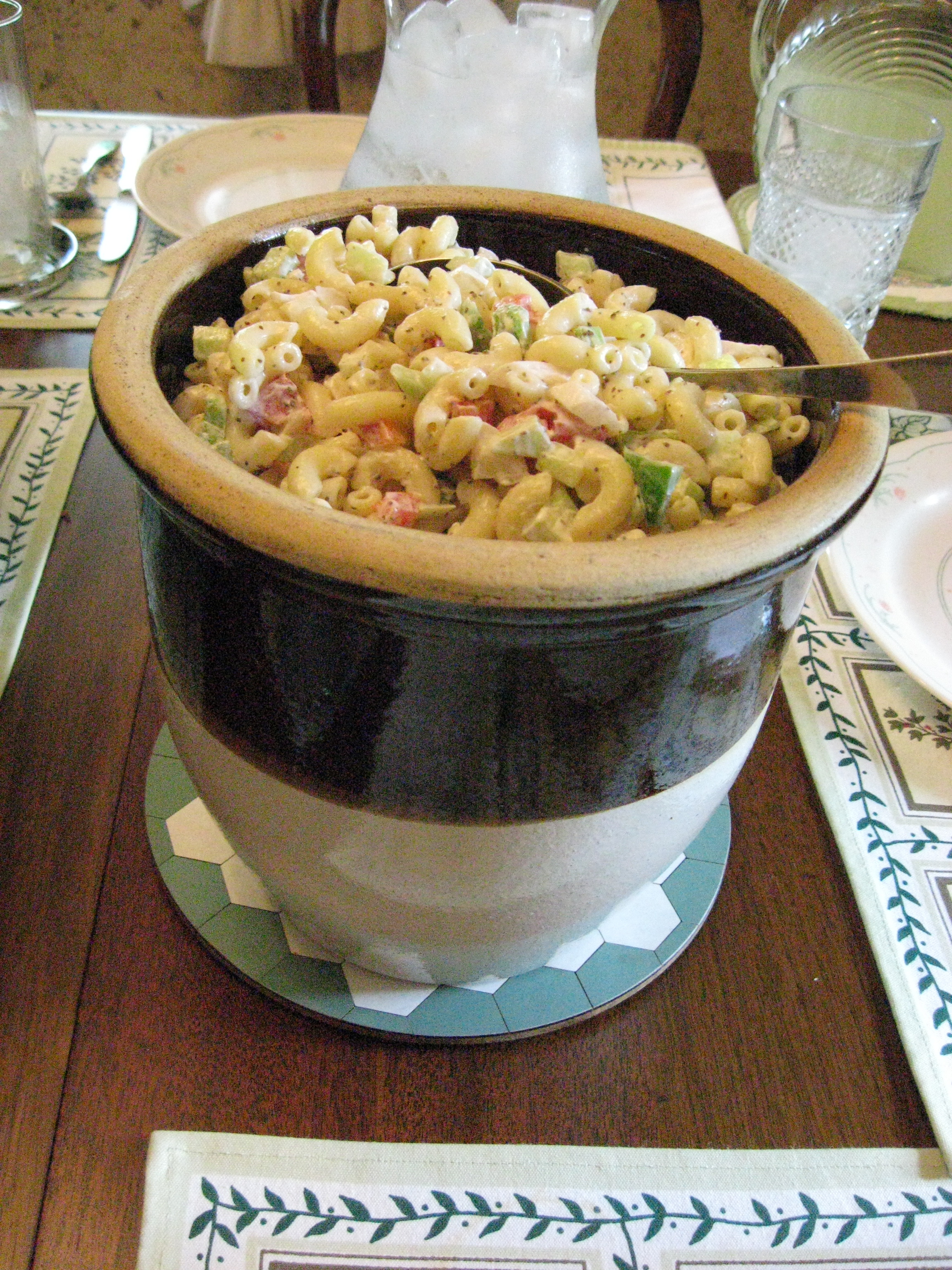 Jane and I loaded up Mr. Bose and took Bob and Frank over to visit with Mom Katie and Marty In Dayton Virginia this weekend. It was a great and fun day. "@V@"